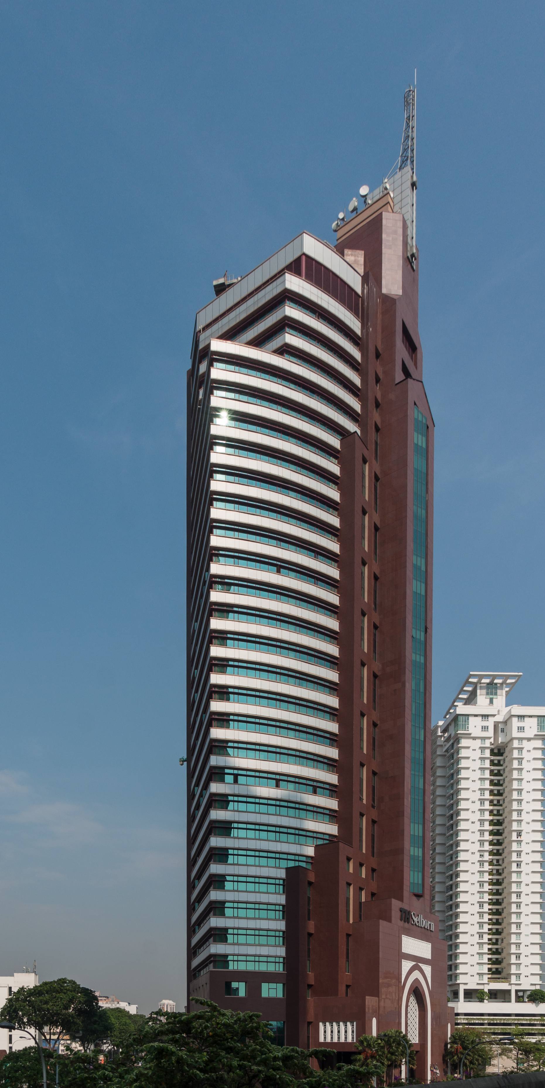 Kuala Lumpur, Malaysia: TH Selborn Tower (Menara TH Selborn)